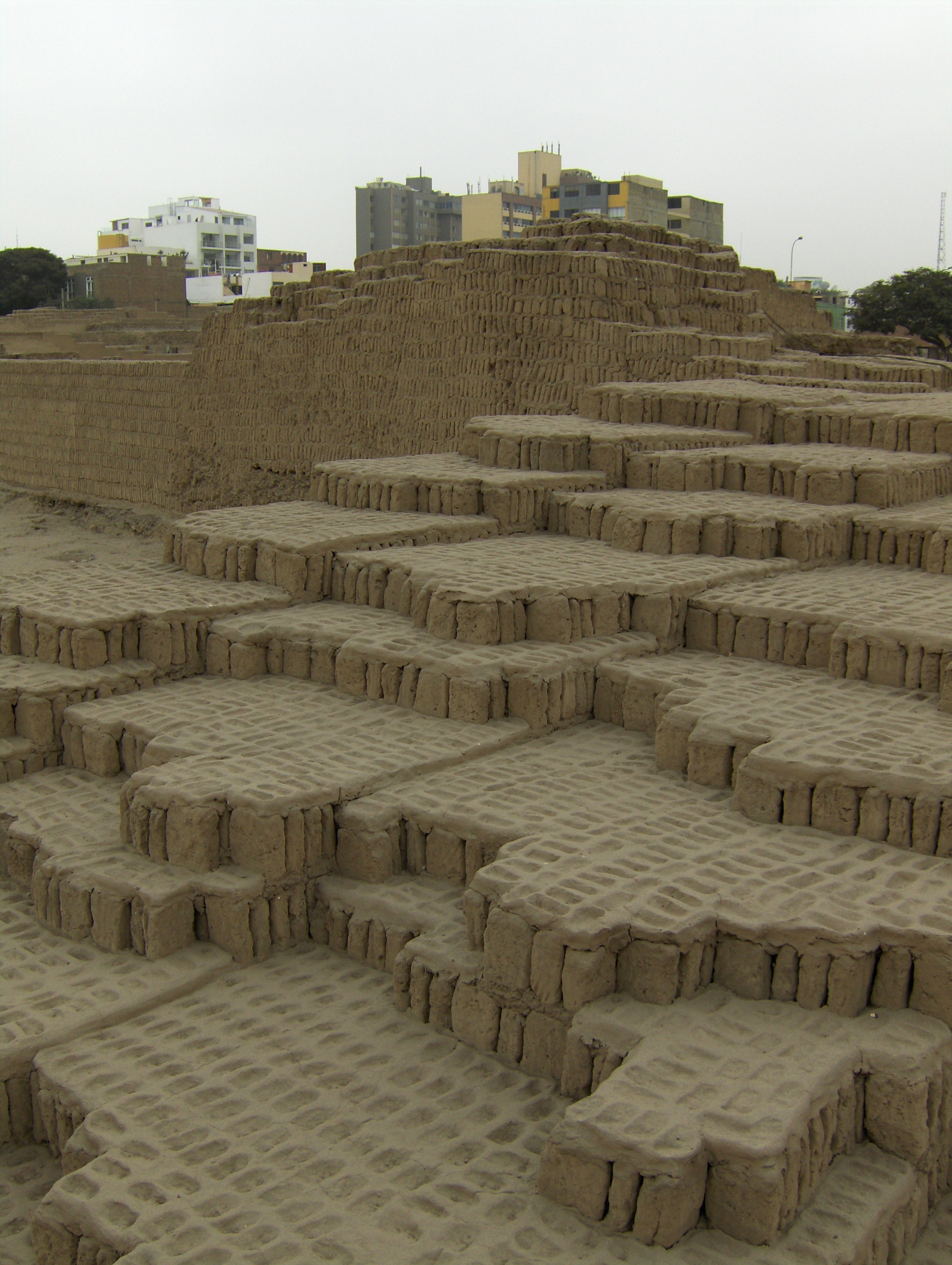 Huaca Pucllana, a pre-Inca ruin in the Miraflores district of Lima, Peru. Taken on my recent vacation to Peru. (June 2007)